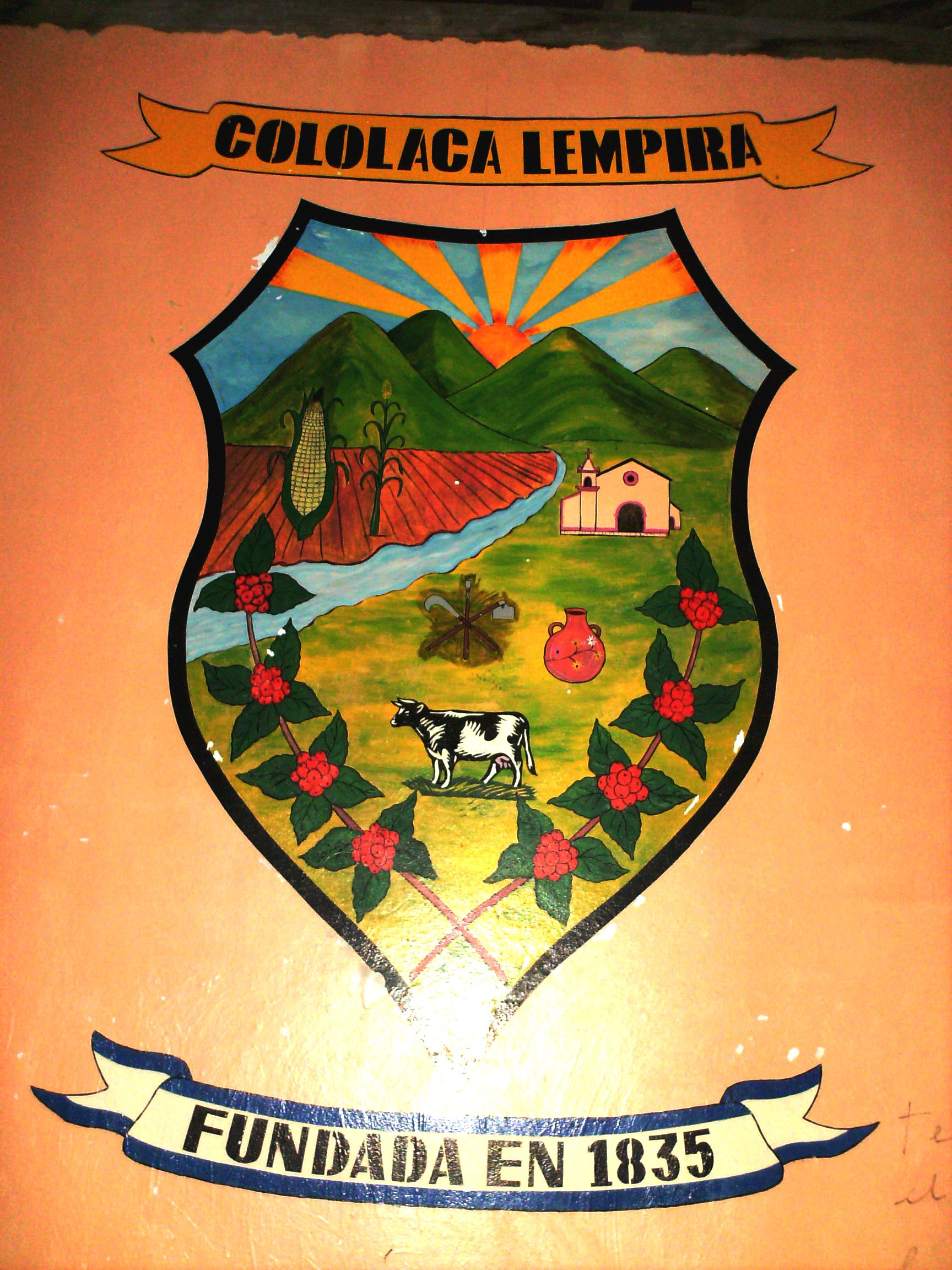 Cololaca, municipality in the Honduran department of Lempira.